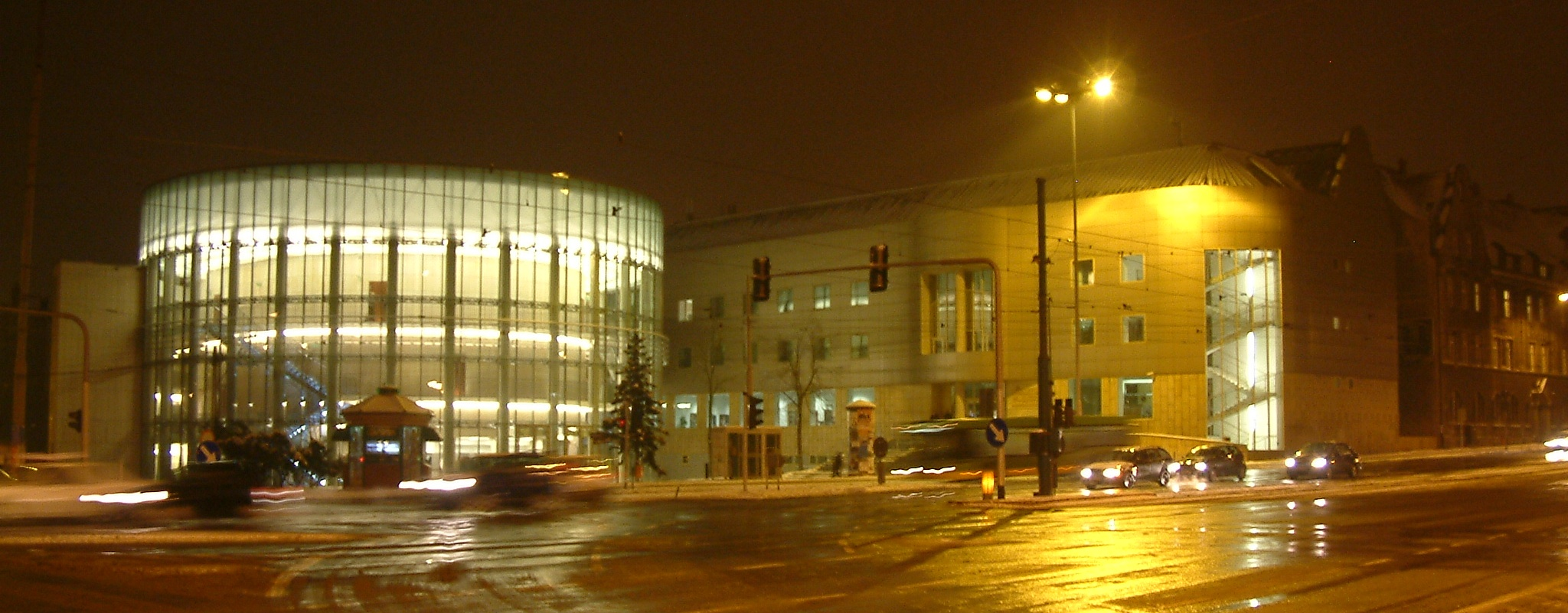 Academy of Music in Poznań by night